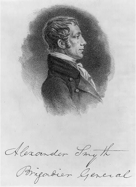 A portrait of Brigadier General Alexander Smyth